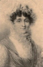 Portrait of Jeanne Charlotte du Luçay.